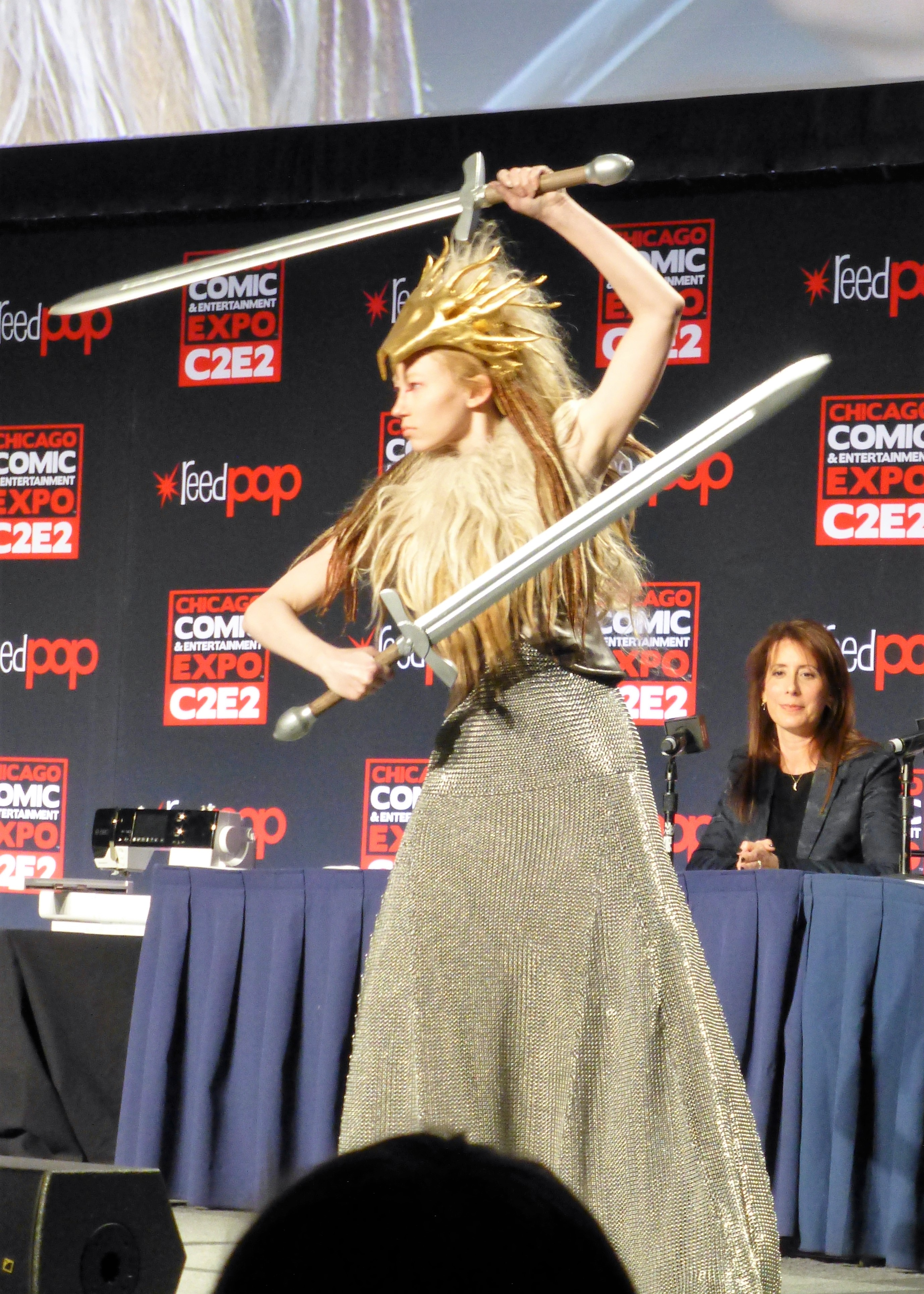 Vera Campbell cosplaying as Jadis (from The Lion, the Witch and the Wardrobe) in the Third Annual ReedPOP Crown Championships of Cosplay held at Chicago Comic & Entertainment Expo (C2E2) 2016.